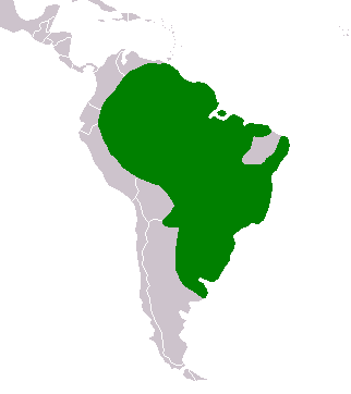 Range of the capybara (Hydrochoerus hydrochaeris) is shown in green (self made with Image:BlankMap-World.png).